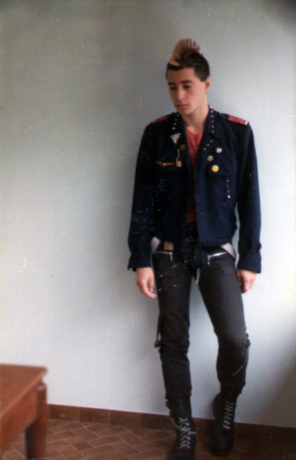 Kind of sad, that was the day I decided to live as a non-punk and become a "normal" guy after a crazy but intense period.